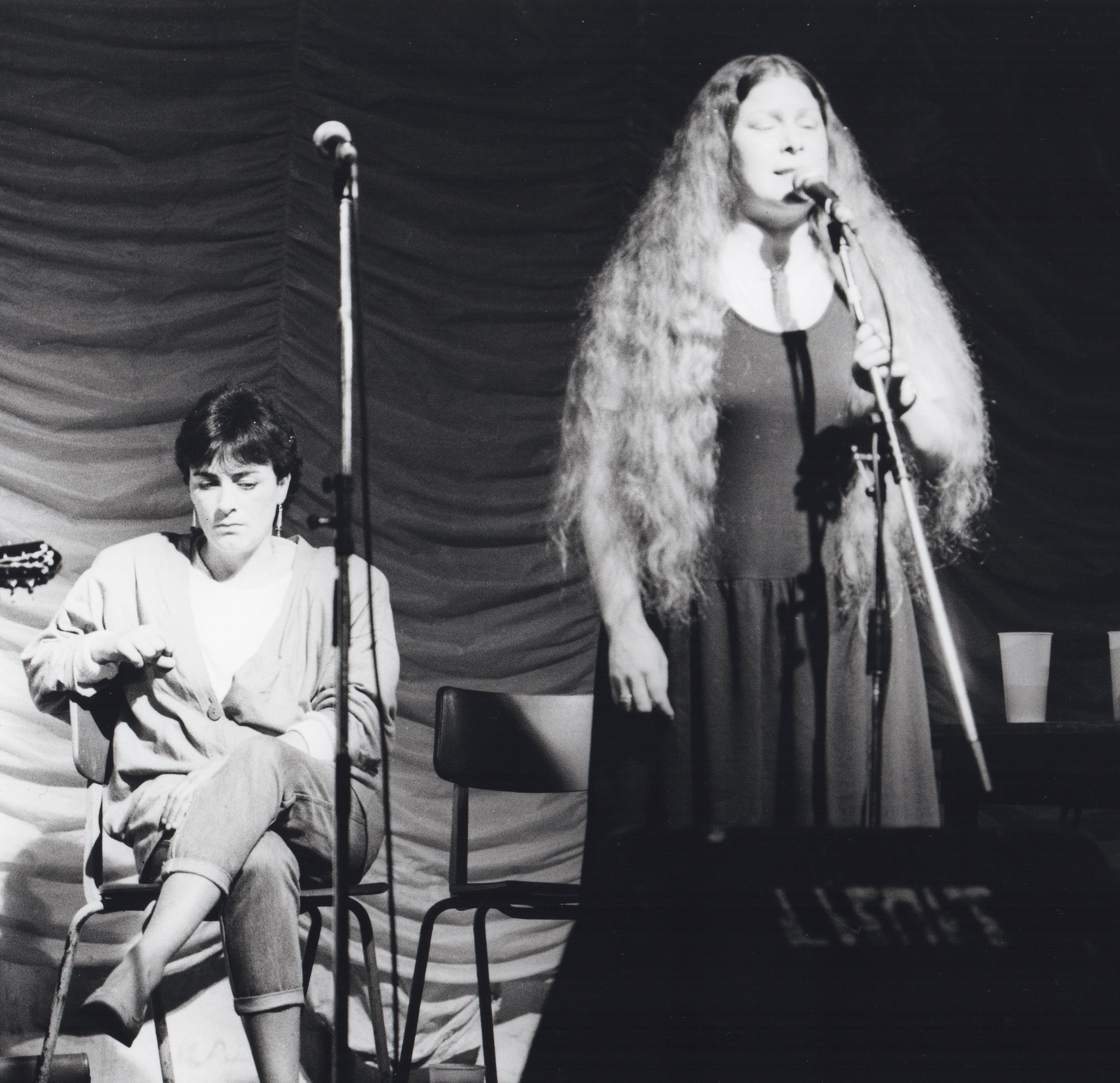 Irish singers Mary Black and Dolores Keane with De Dannan, Irish folk band at the Trowbridge Folk Festival, 1985 (Tony Rees photograph).